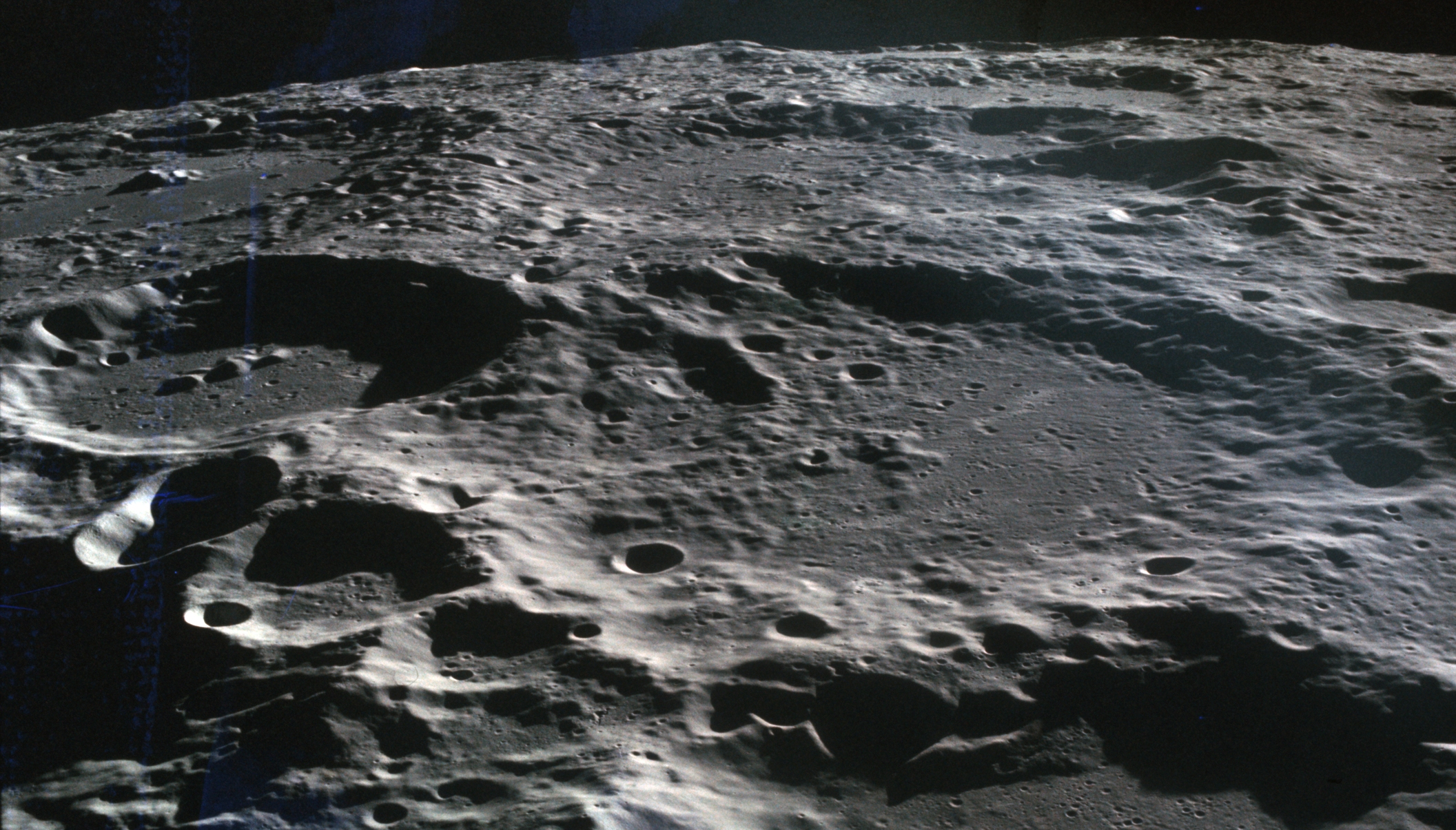 Oblique view of Orlov (left center) and Orlov Y (right center), on the far side of the moon, facing southwest. Leeuwenhoek crater is in the left background. Taken from an altitude of approximately 114 km on Revolution 15 of the Apollo 17 mission. Sun angle is about 8 deg.